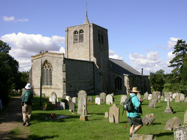 St Peters Church, Thurleigh. The earliest remaining part of the church is of the early C12th. Further building work took place in the 13th, 14th and 15th centuries.